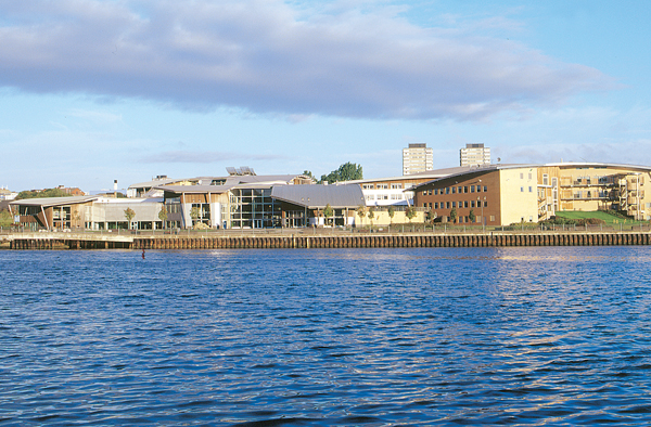 Steve Heywood, GFDL